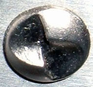 Tamper resistant one-way slotted screw - as found on a bathroom stall